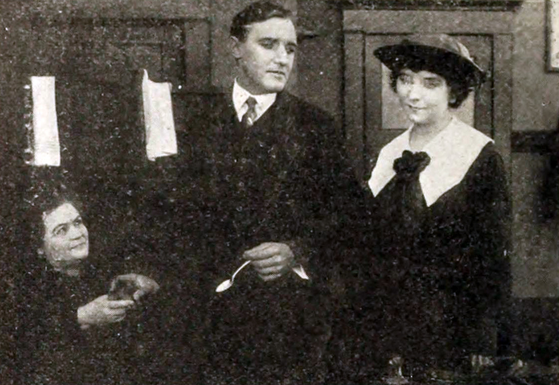 Still used in a review in The Moving Picture World of the film Prisoners of Conscience (1916).